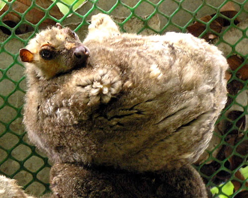 Cynocephalus volans. The nocturnal Flying Lemur is active at night, spending the day inside specific holes in trunks of standing dead trees, or inside holes in branches of live trees. Colugos have a membrane of skin that enables them to cover long distances gliding from tree to tree. Phylogenetic studies seem to prove, that Colugos are the closest relatives of the primates. Colugos are classified as vulnerable. Their rainforest habitat is being cleared and furthermore it is hunted for meat and fur.